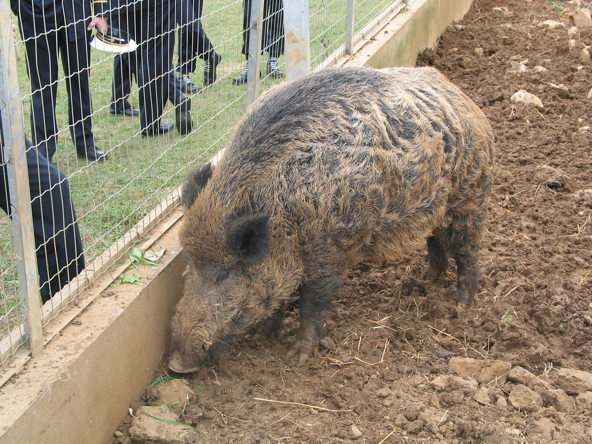 Aldo